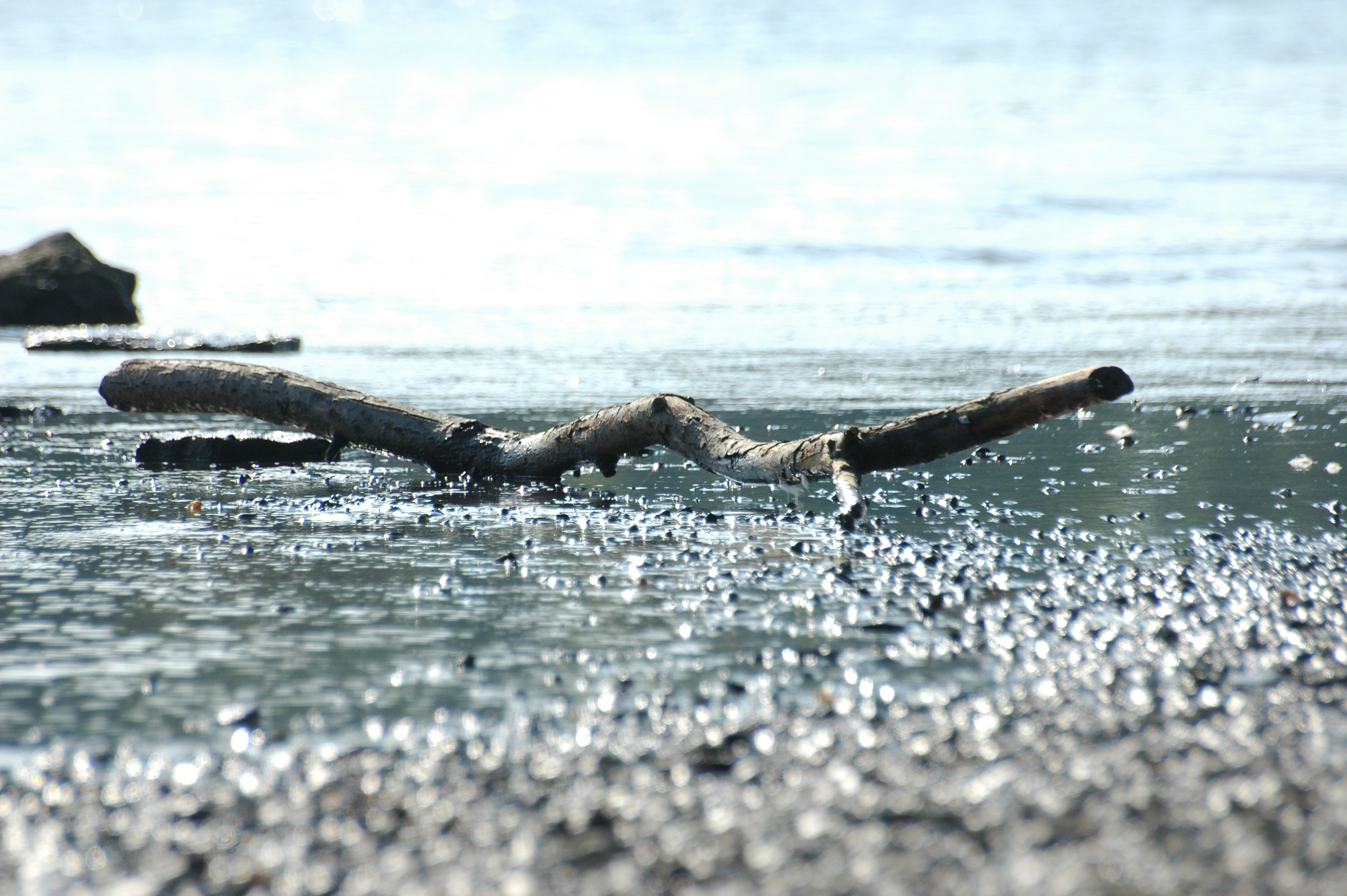 Branch, Rhine, 55299 Nackenheim, Germany